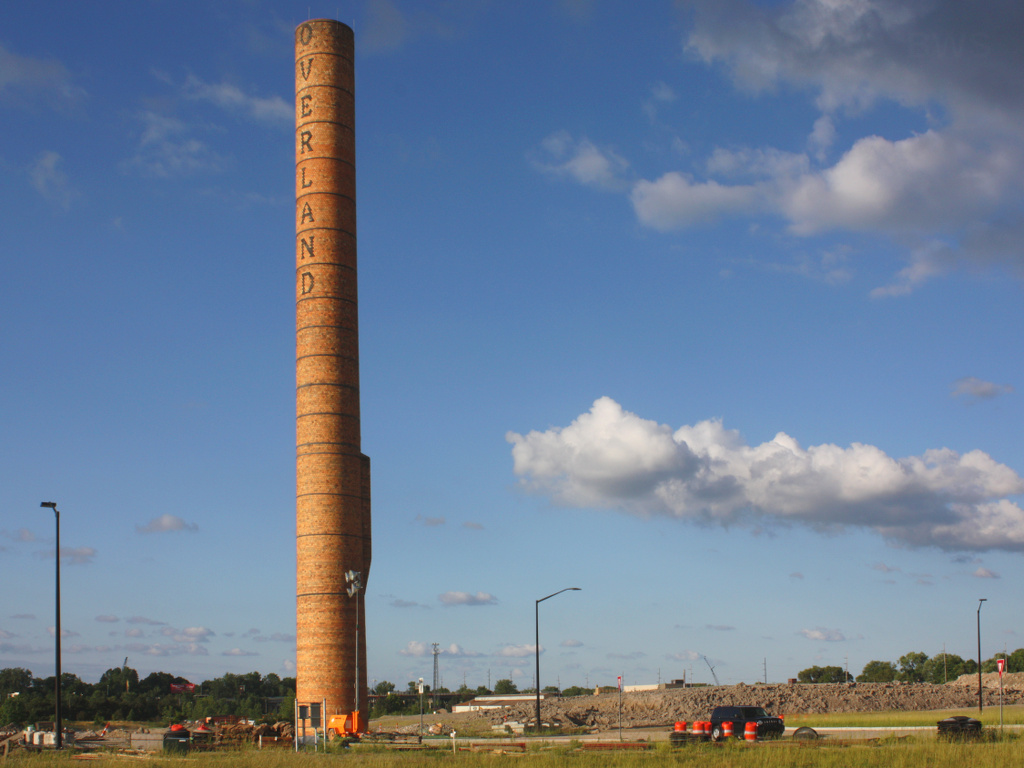 The final remaining smokestack of the Willys-Overland Automobile Company factory in Toledo, Ohio, USA